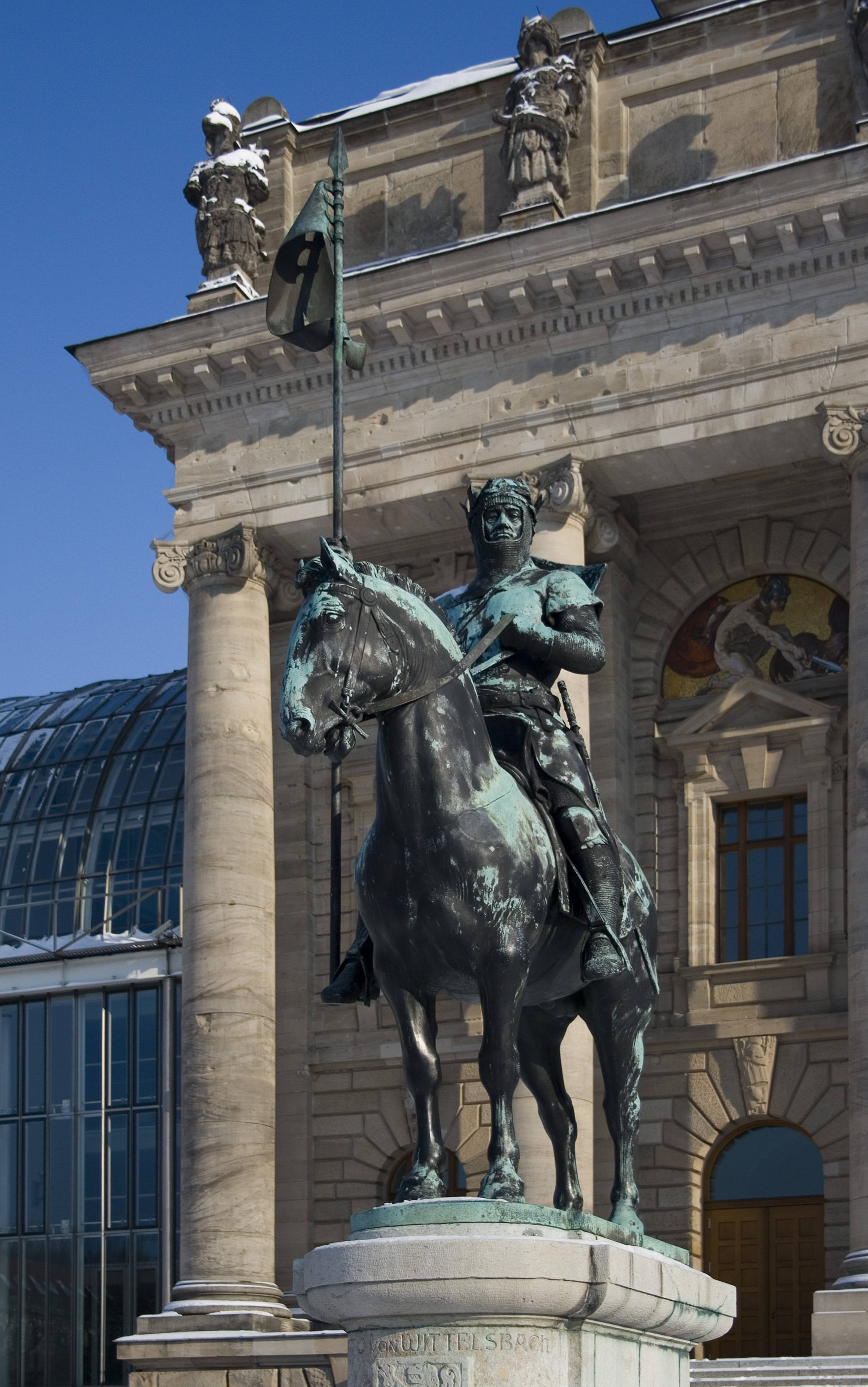 Statue of Otto from Wittelsbach, Munich, Germany